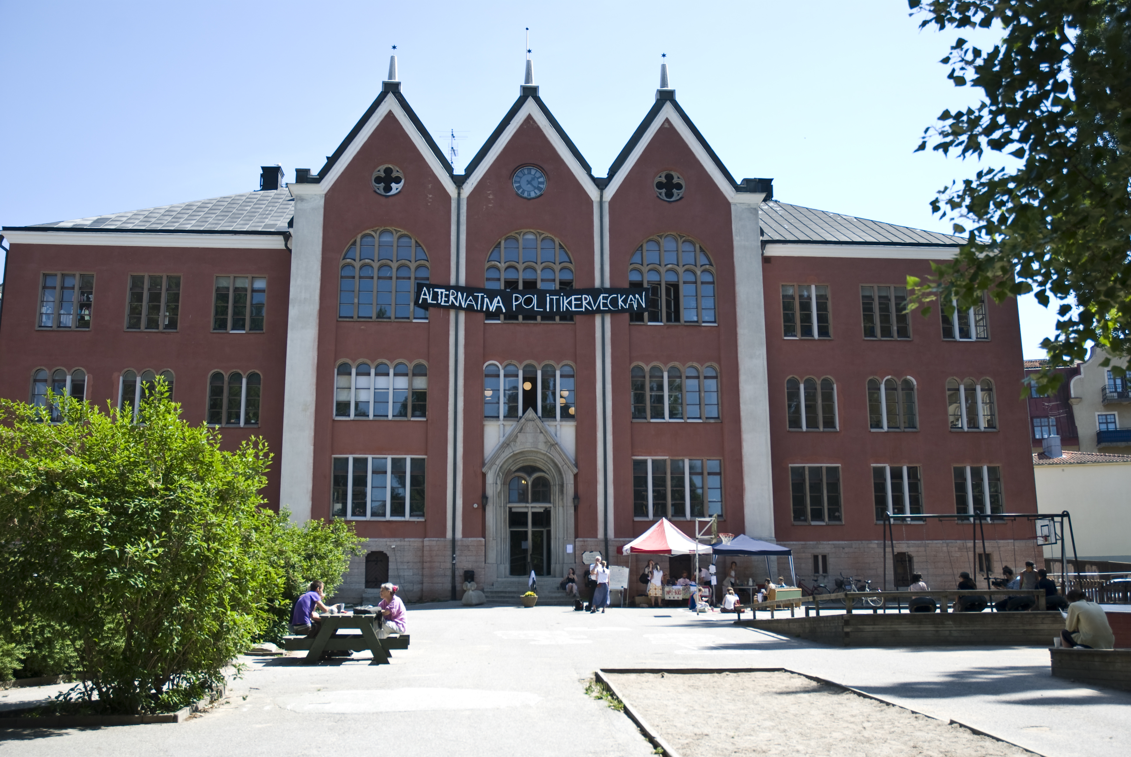 A picture of Alternativa Politikerveckan in 2009, in Visby.